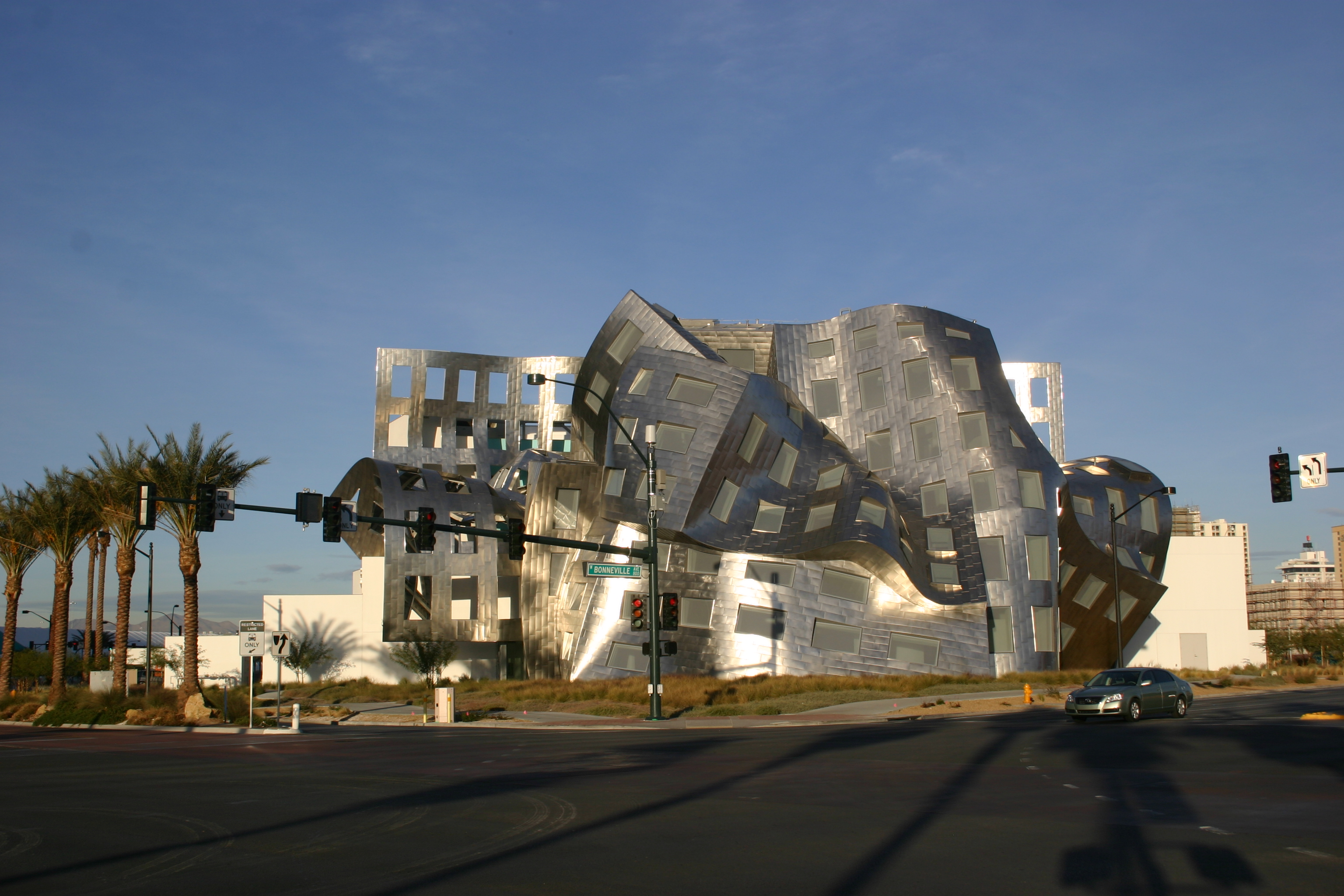 The southwest facade of the Lou Ruvo Center for Brain Health — designed by Frank Gehry, in Downtown Las Vegas.